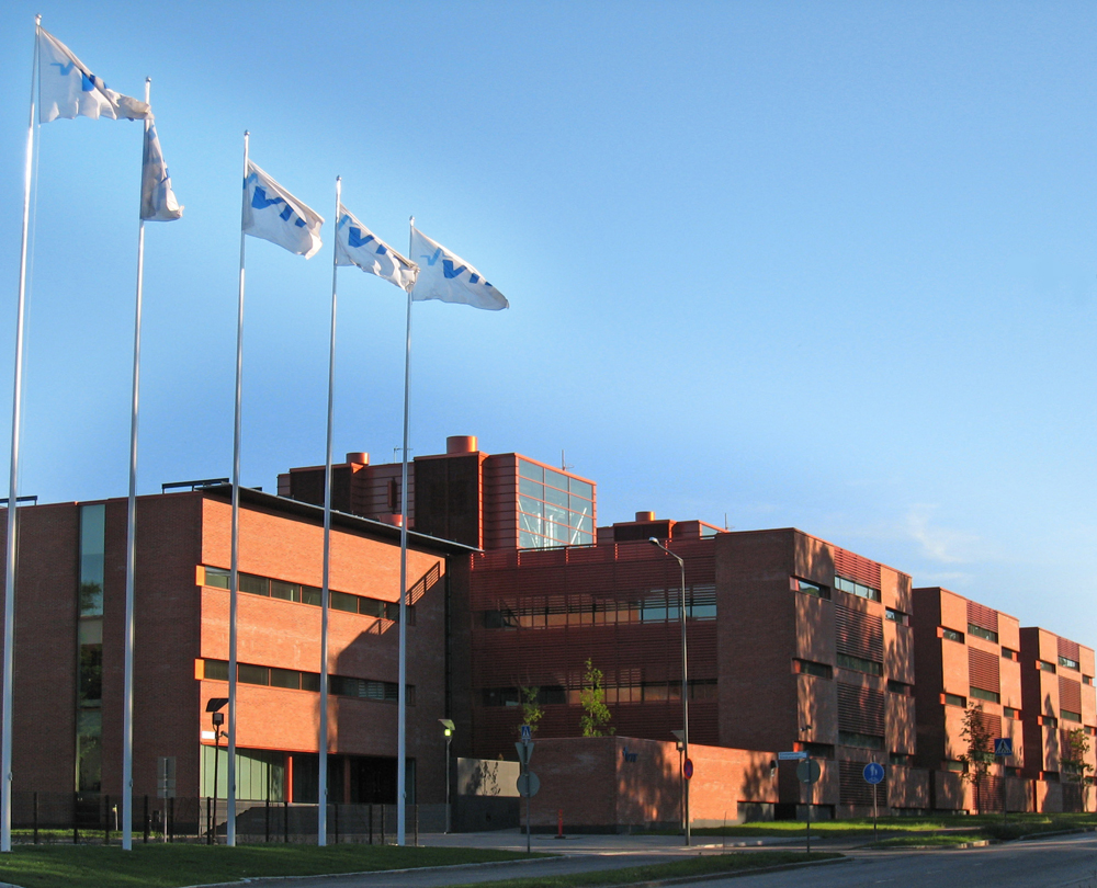 VTT Headquarters in Espoo, Finland